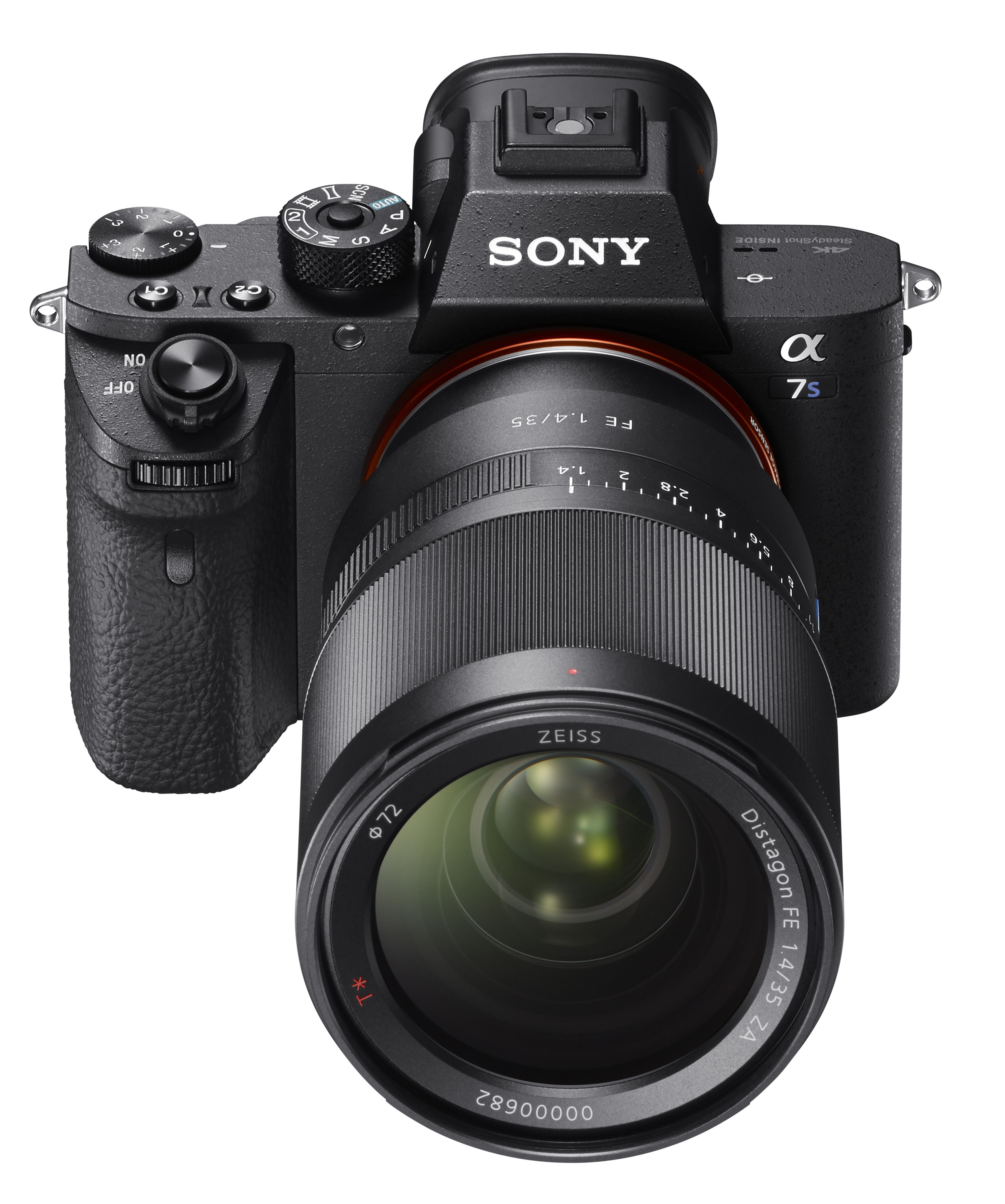 Sony ILCE-7SM2 (press release)